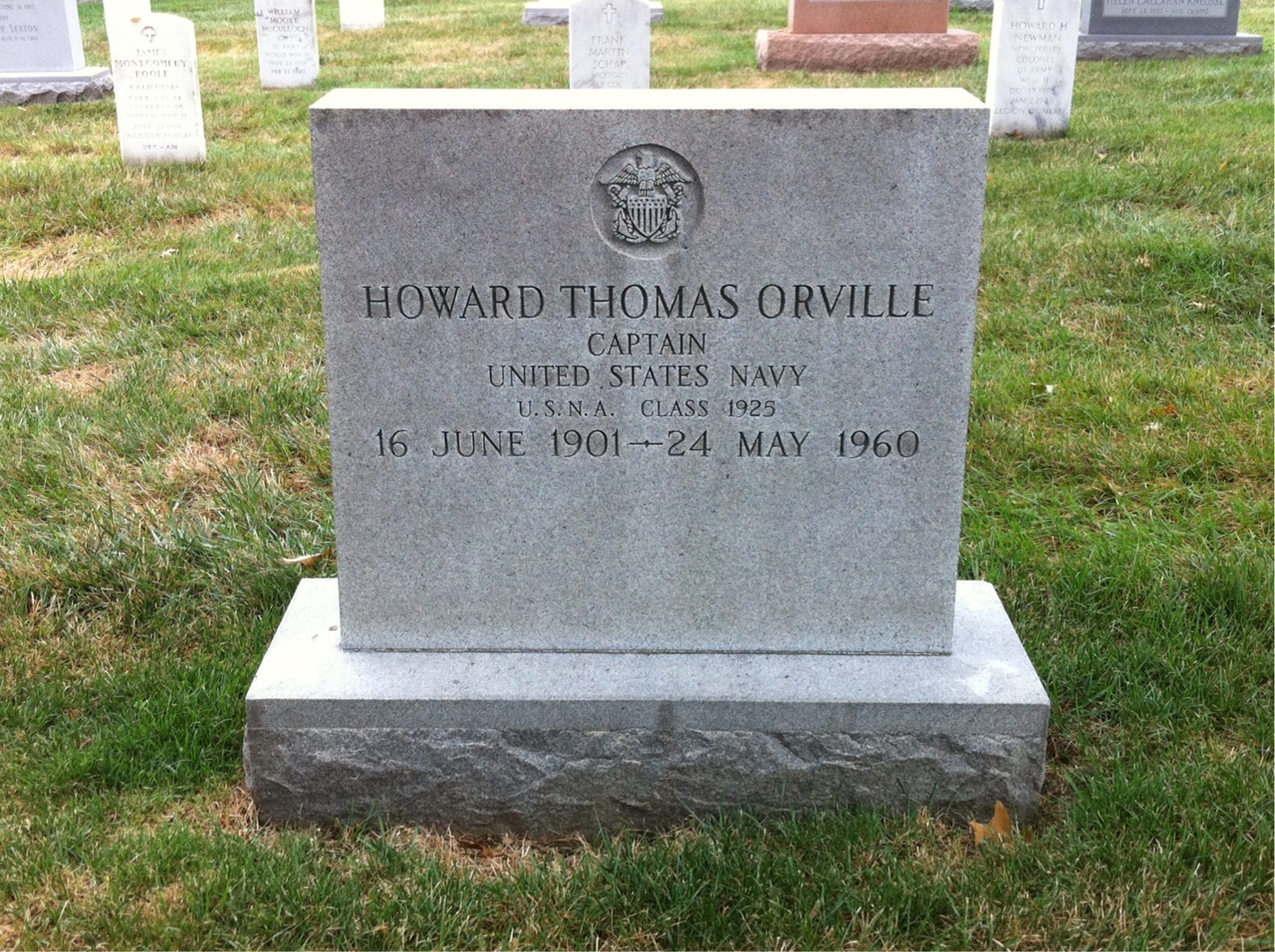 Grave of Howard Thomas Orville at Arlington National Cemetery